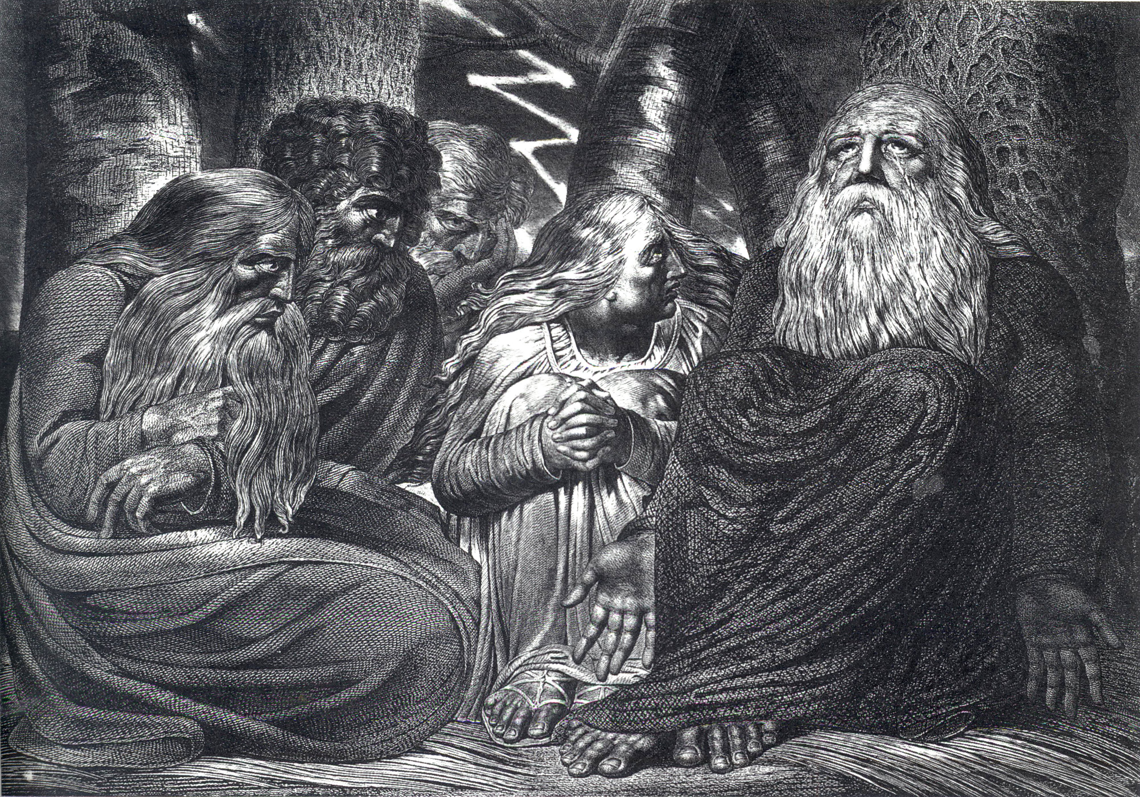 William Blake Job's Tormentors c1785-90 this state 1800-25 British Museum London